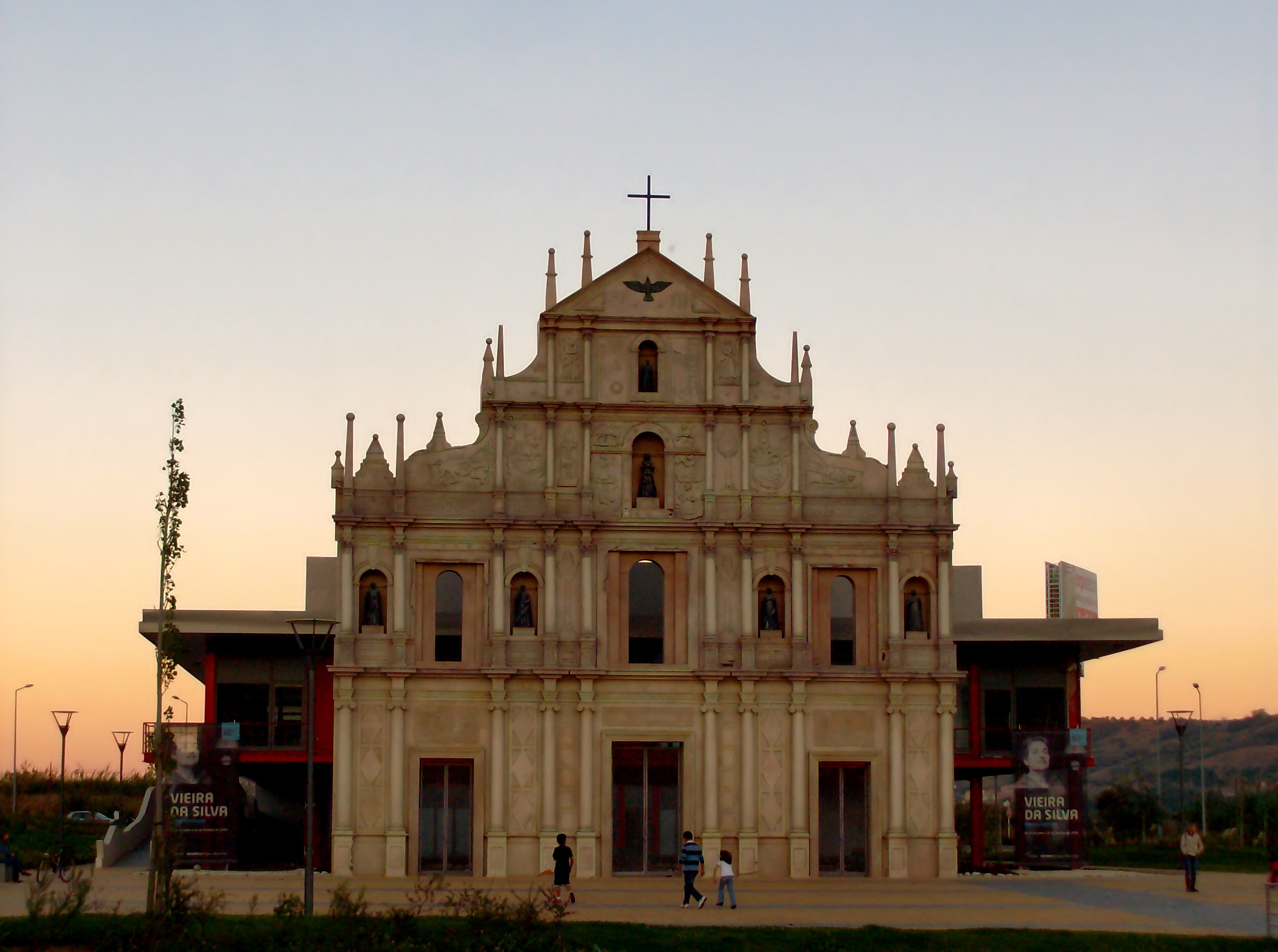 Macau Hall in City Park. Loures, Portugal.